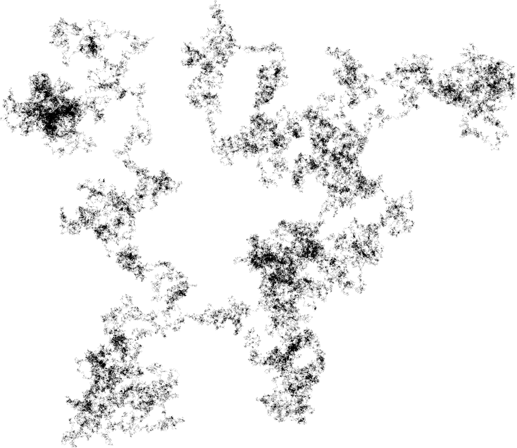 Random walk in two dimensions with two million steps. In each step, there is an equal probability of going into any point in the 3x3 grid centered on its present position (i.e. it can go north, northwest, west, southwest, south, southeast, east, northeast, or stay where it is; with equal probability). After 2000000 steps the image was saved and cropped. The darker the region, the more it has been visited. Made with MATLAB using my own code.